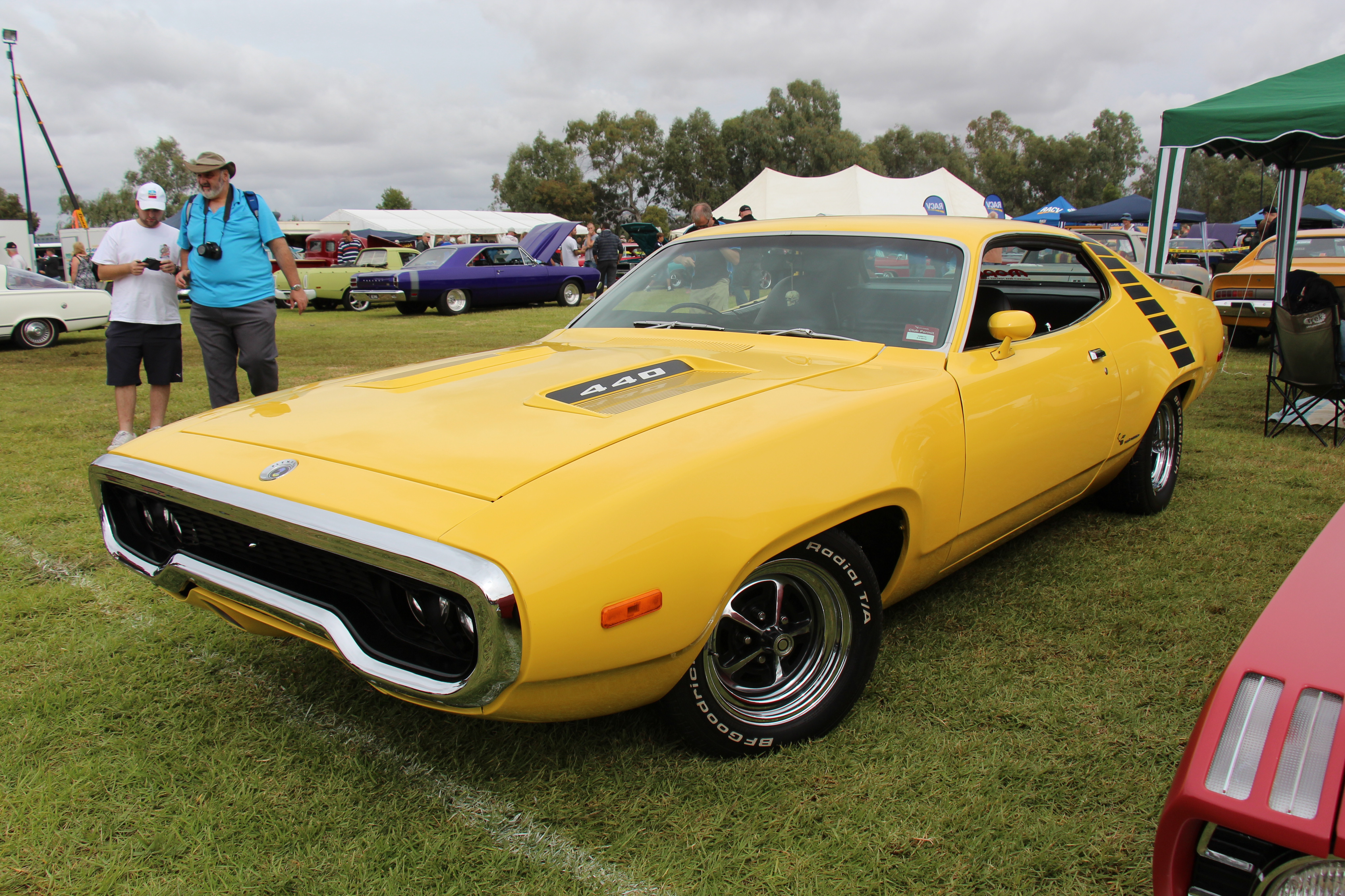 Roadrunners were made from 1968-80 this the 2nd generation (1971-75), along with the Satellite, GTX and Dodge Charger, the Roadrunner got a new body, a more aerodynamic rounded shape with deep inset grille, but no convertible was available. It was based on the Mopar B body, Plymouth wanted a car that that could run a 14 sec qtr mile and cost under $3000, so the Roadrunner was cheap but fast, they came complete Cartoon Character Decals and Beep Beep horn. Engnes; 340, 383, 440 6 pack or 426 Hemi